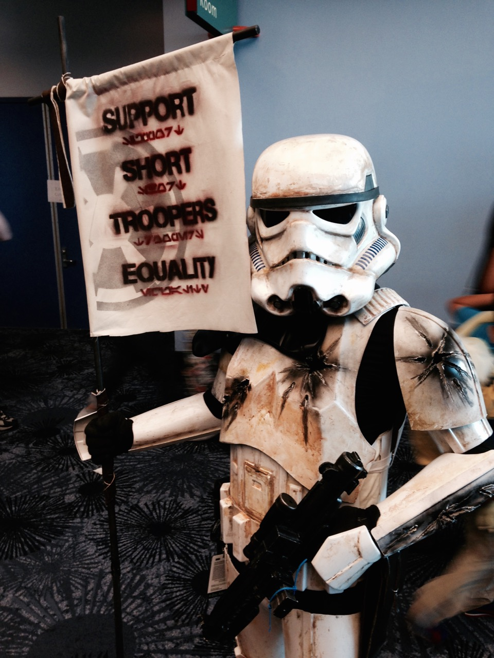 Support Short Troopers Equality - at Star Wars Celebration 2015 at the Anaheim Convention Center. Star Wars Celebration in Anaheim, April 2015.